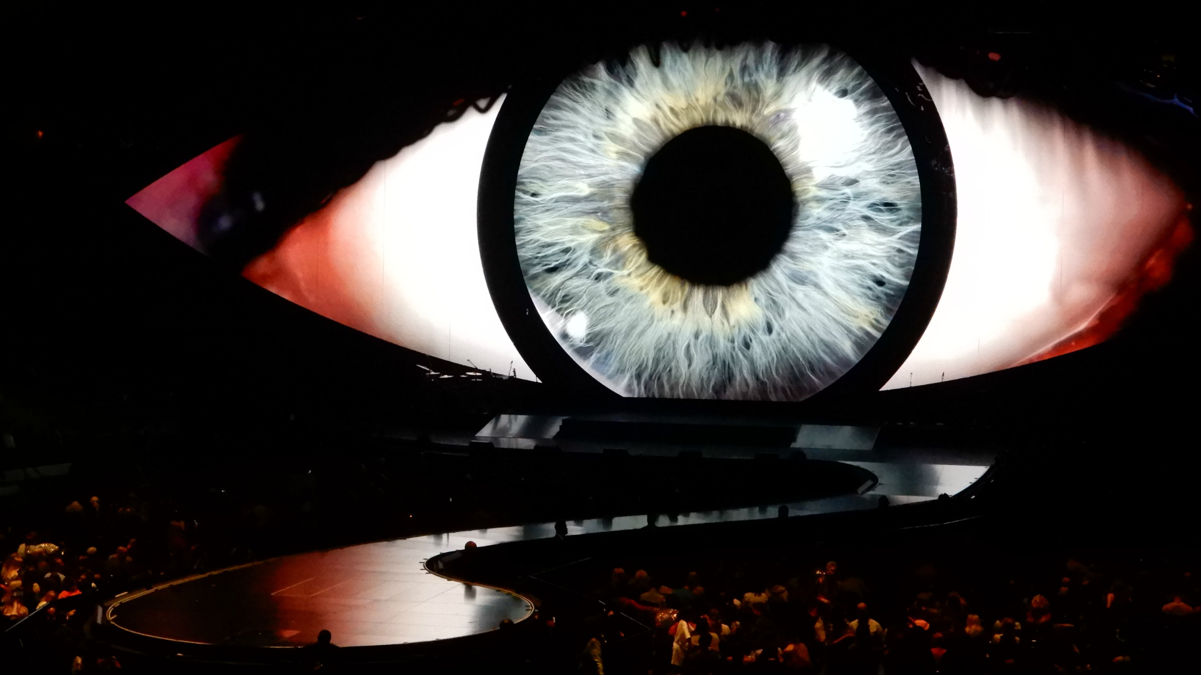 Set for Katy Perry's Witness Tour